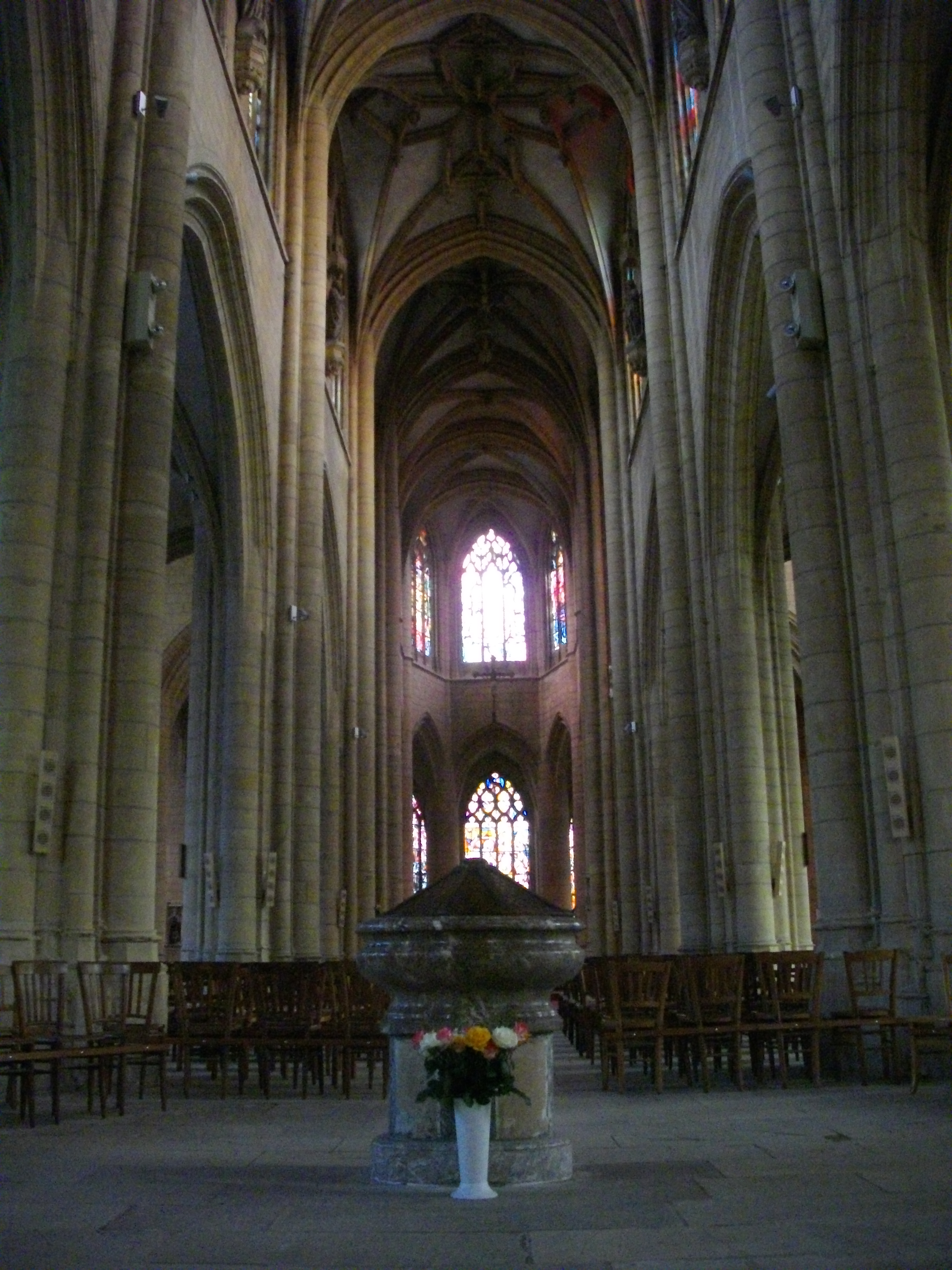 Our Lady of Hope basilica in Charleville-Mézières (Ardennes, France), nave .